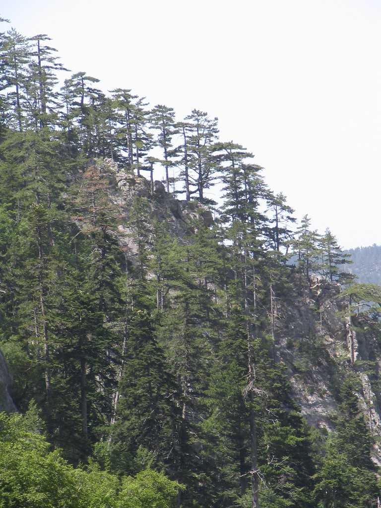 Forest on the western slope of Mount Olympus